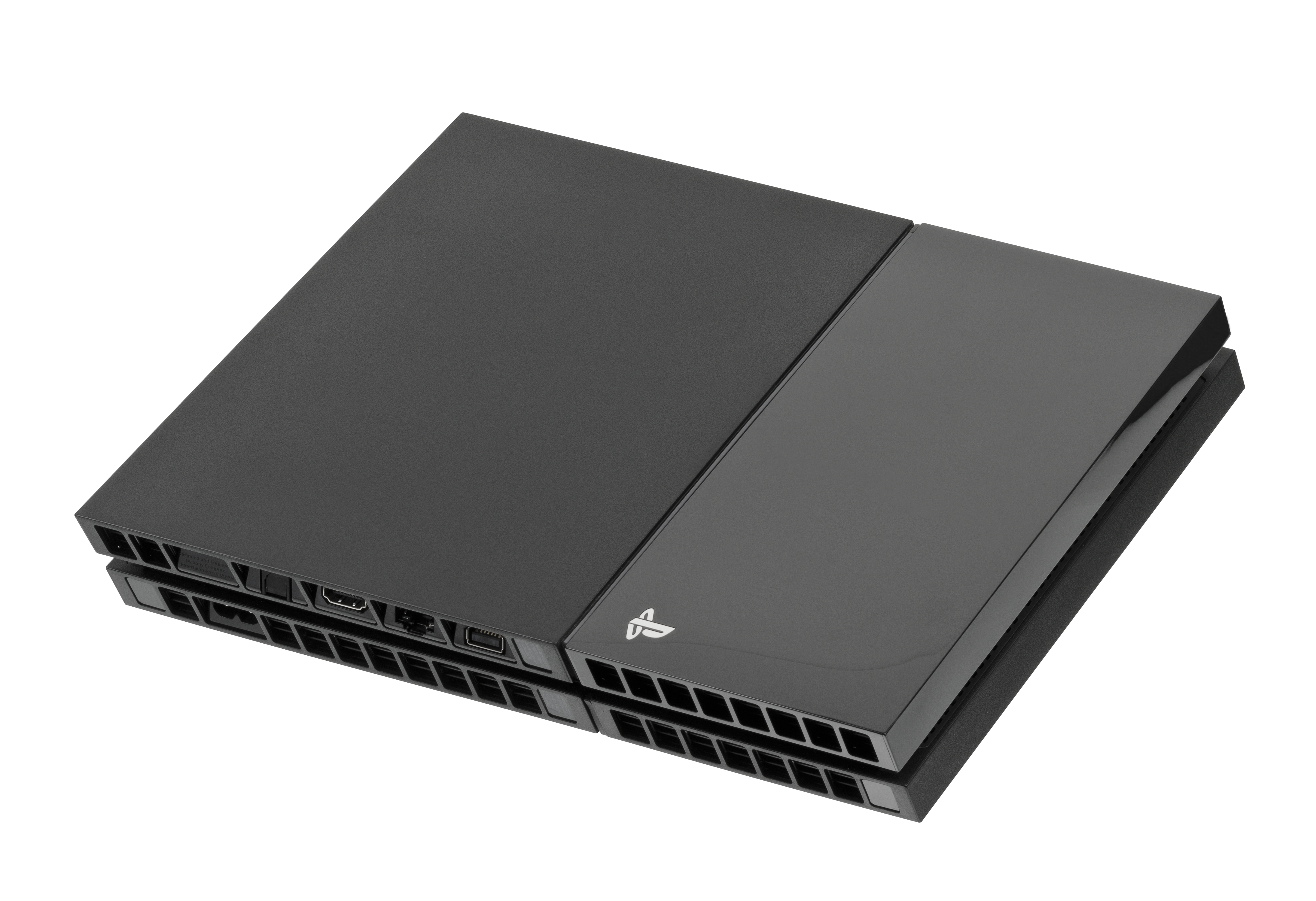 The PlayStation 4 (PS4) gaming console made by Sony. Released on 11-15-2013 in North America it is an eighth generation system and competes with the Microsoft Xbox One and the Nintendo Wii U.